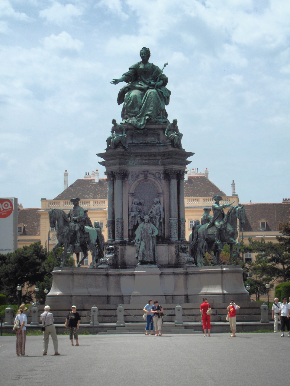 Austria, Vienna, Maria-Theresien-Platz